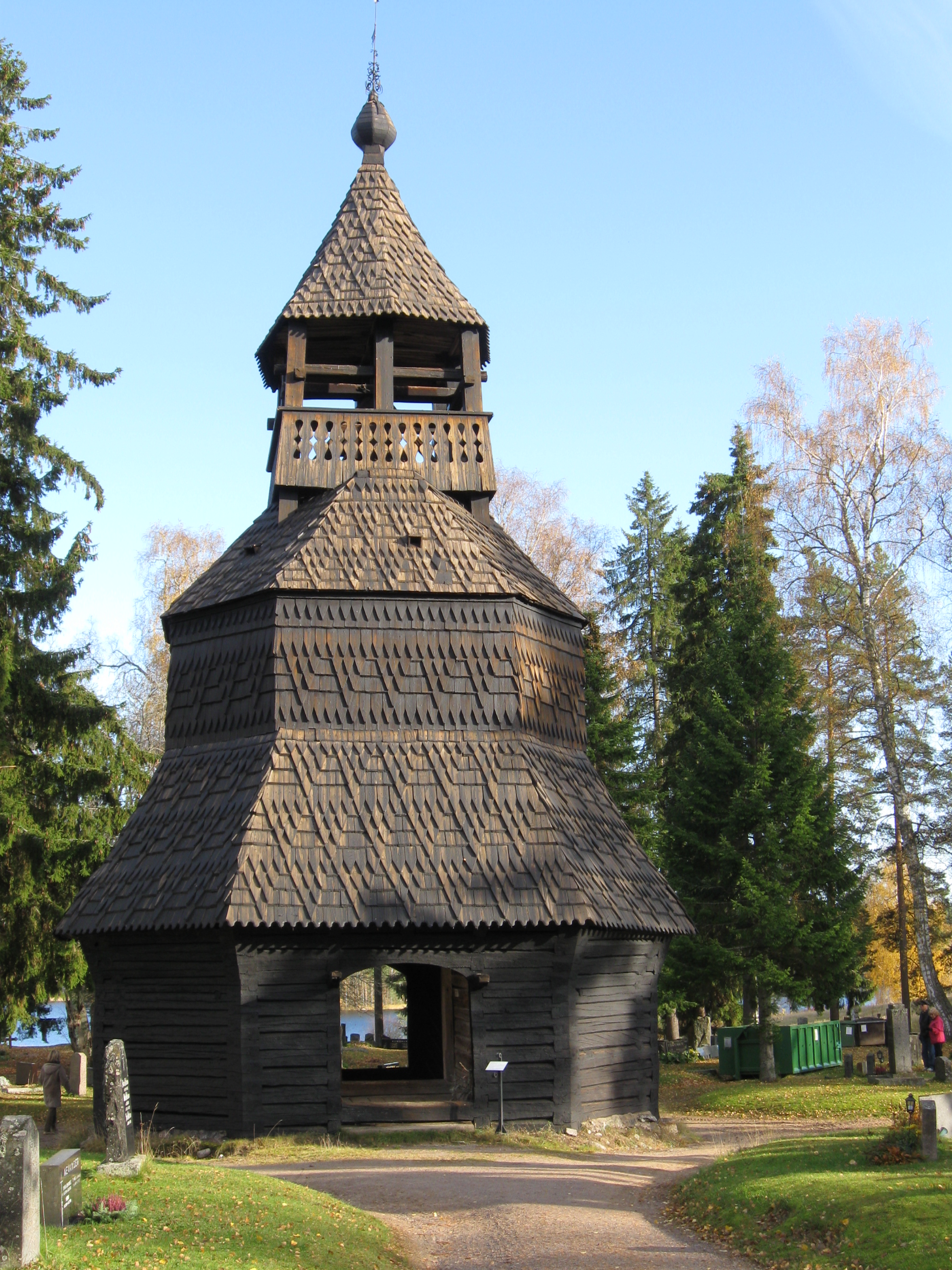 Wooden bell tower of Ruokolahti church in South-Eastern Finland.